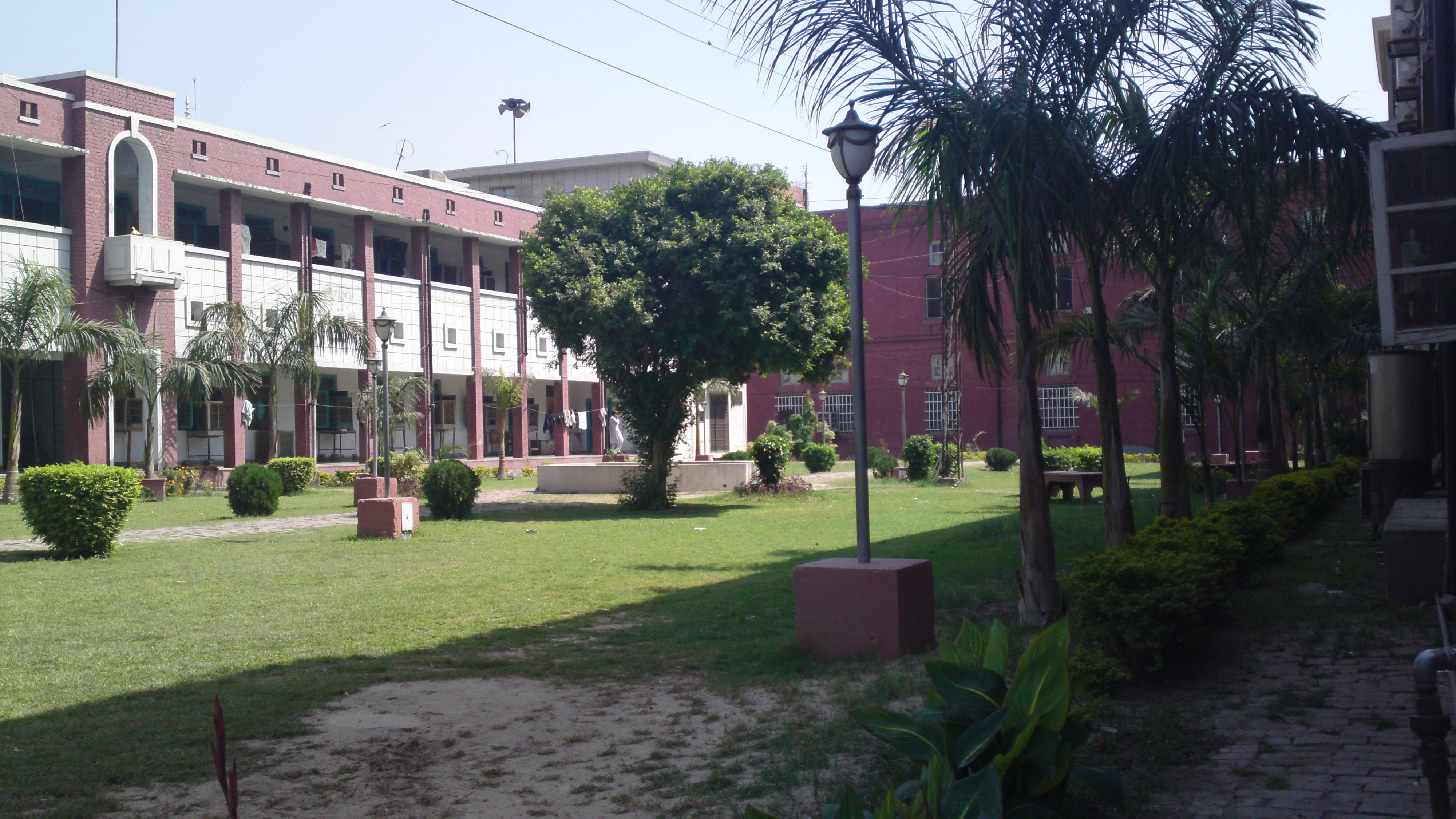 Boys Hostel KEMU, Lahore. Shown Is C-Block Hostel.